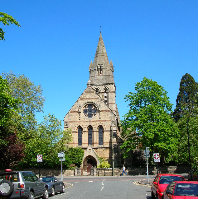 West front of the former Church of England parish church of SS. Philip and James, Woodstock Road, Oxford, seen from Leckford Road. The church is now redundant and is the premises of the Oxford Centre for Mission Studies.